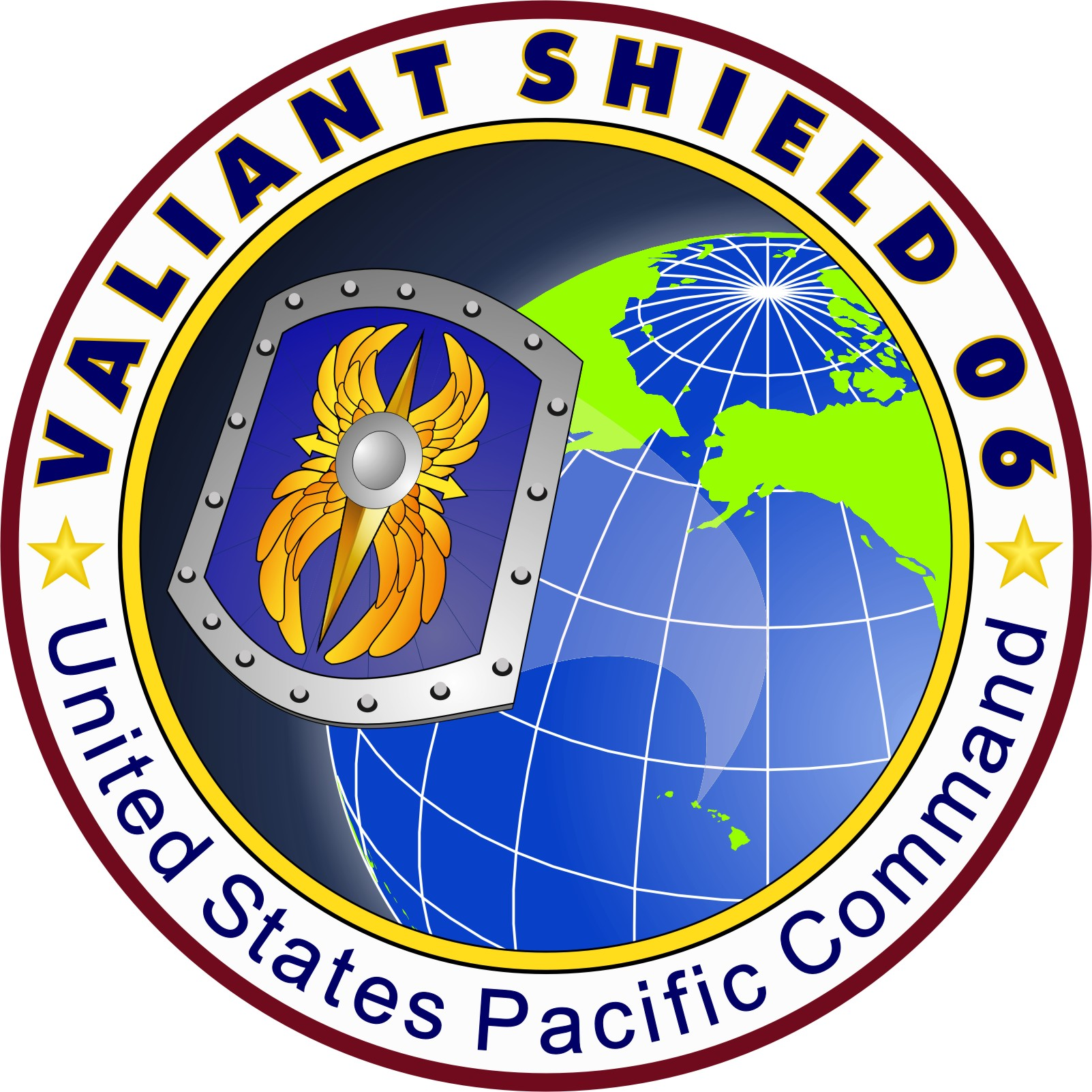 Logo for the U.S. military exercise Valiant Shield.